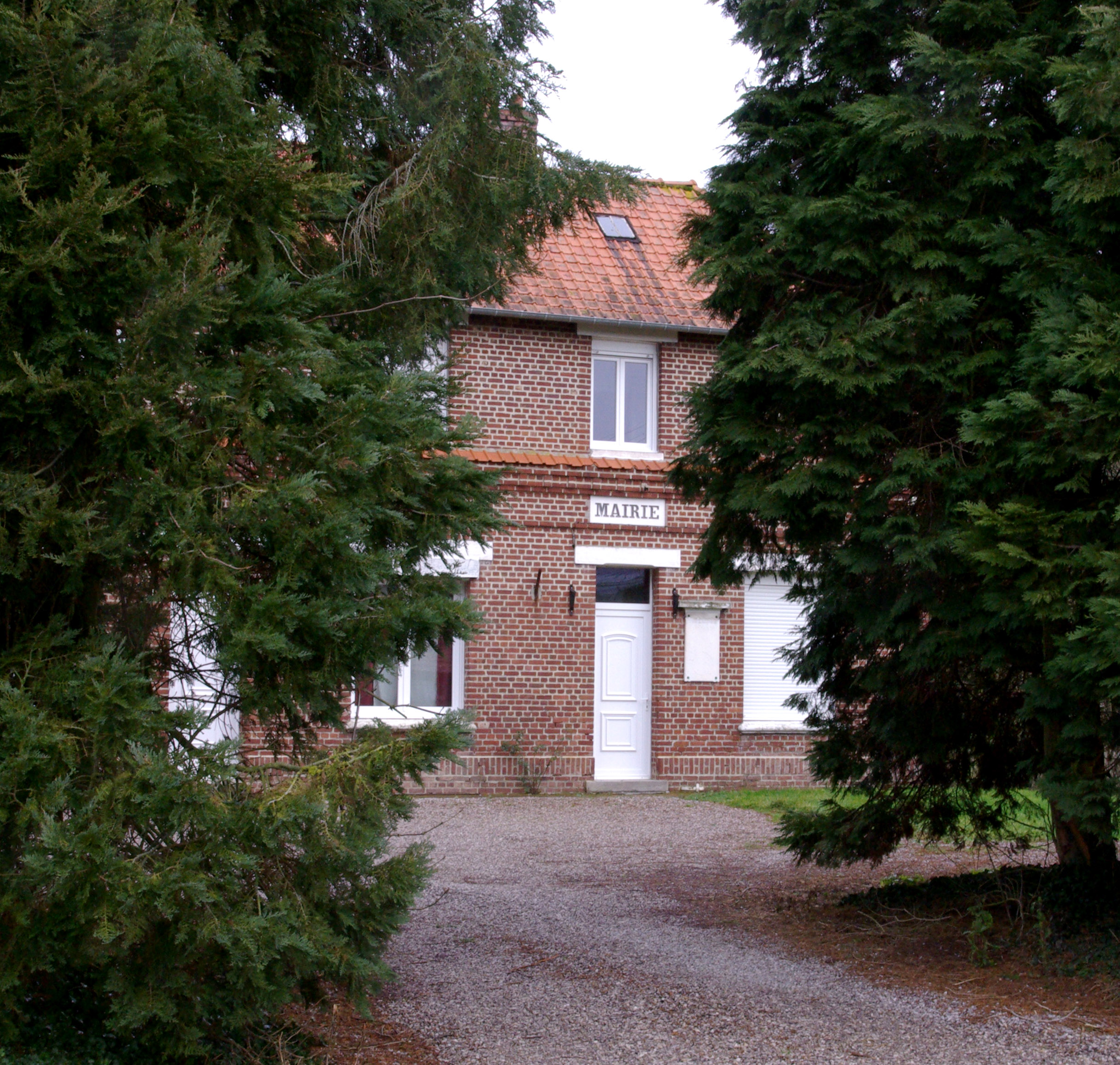 Coigneux, the City Hall